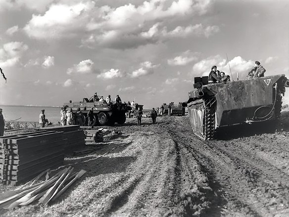 A column of 'Alligator' amphibious vehicles passing Terrepin amphibious vehicles on the Scheldt River near Terneuzen, October 13th, 1944